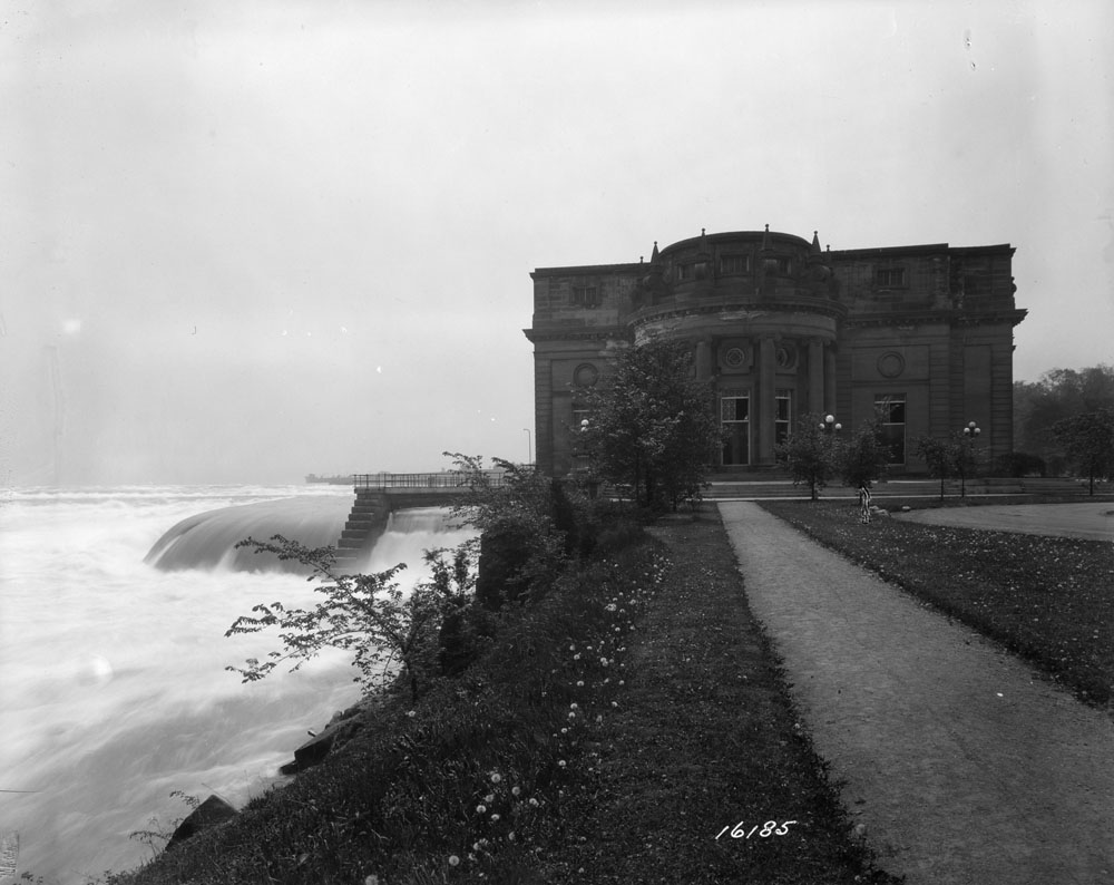 Exterior of Toronto Power Generating Station.